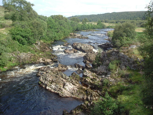 River Helmsdale Taken from the bridge near Kildonan Railway Station.